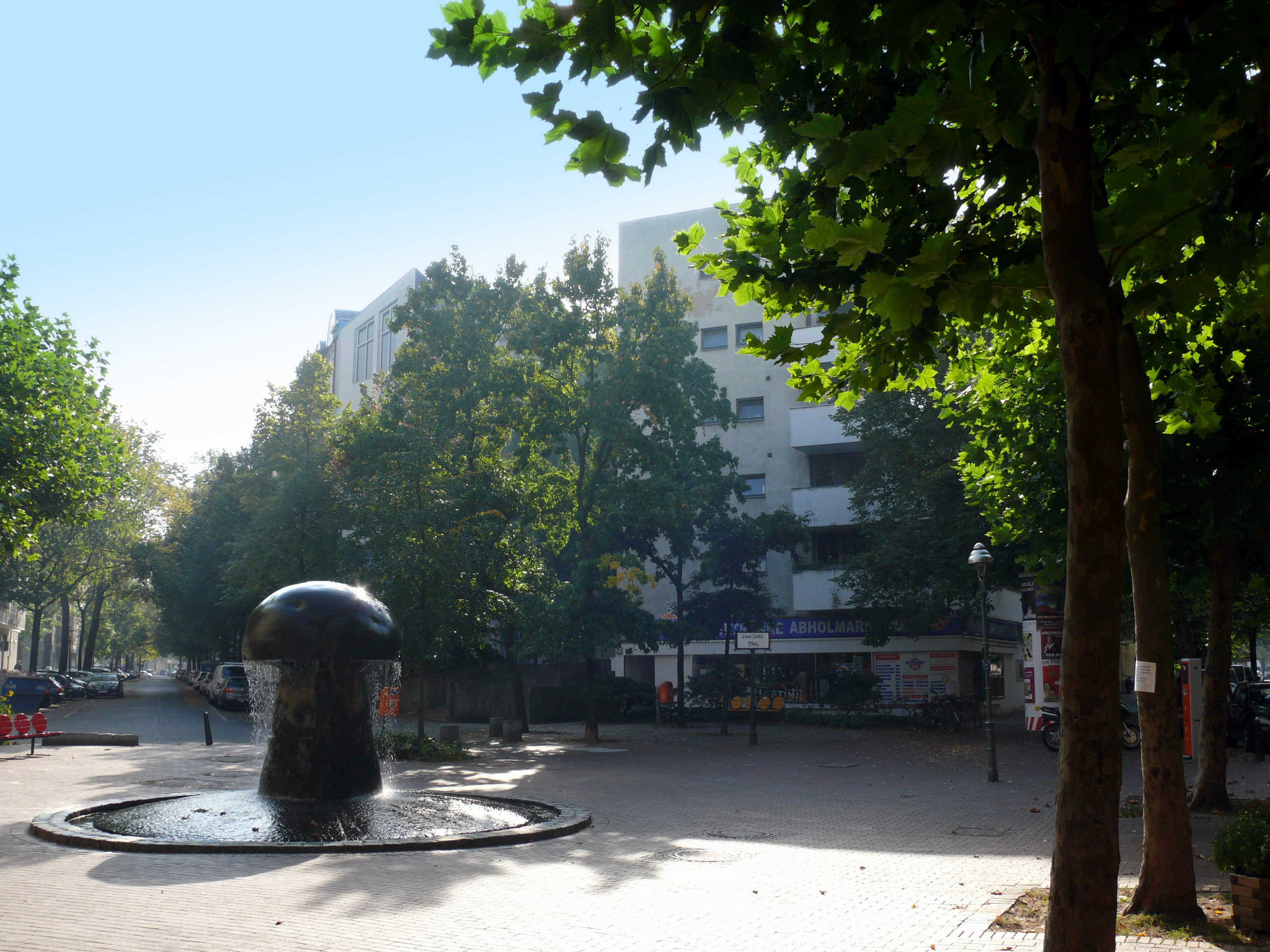 Berlin-Wilmersdorf Leon-Jessel-Platz